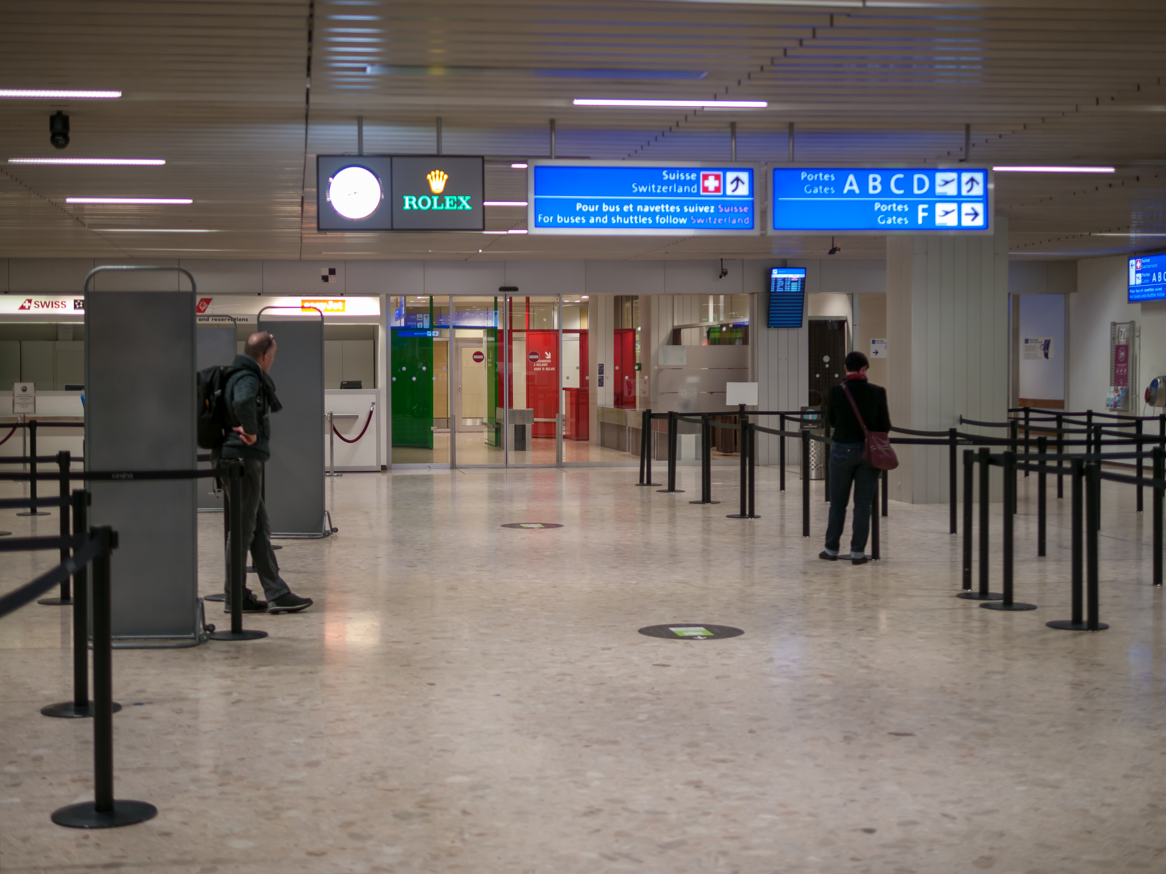 French sector of Geneva Airport